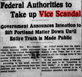 Talks about how the federal authorities are getting involved.